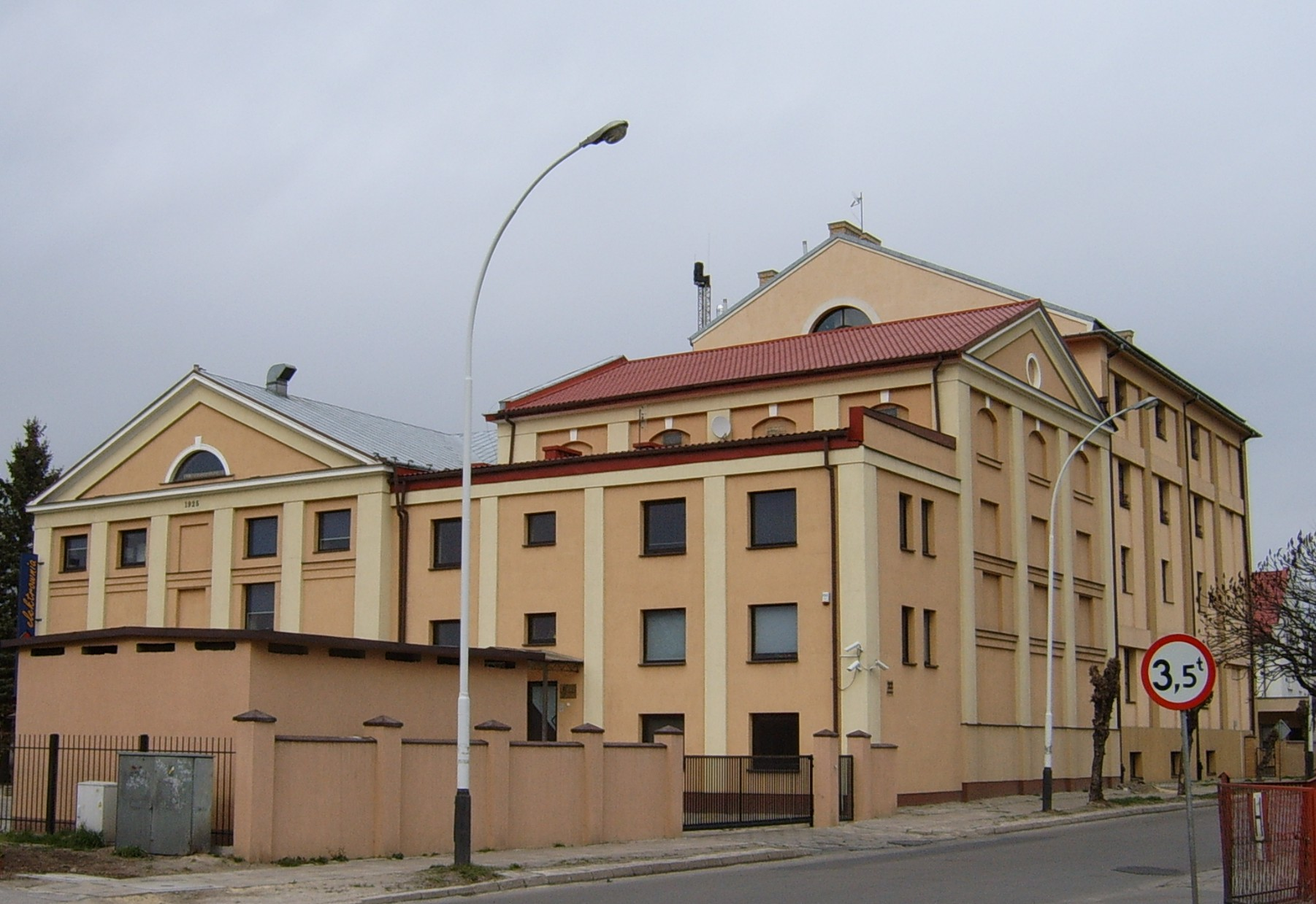 Former power station in Zamość